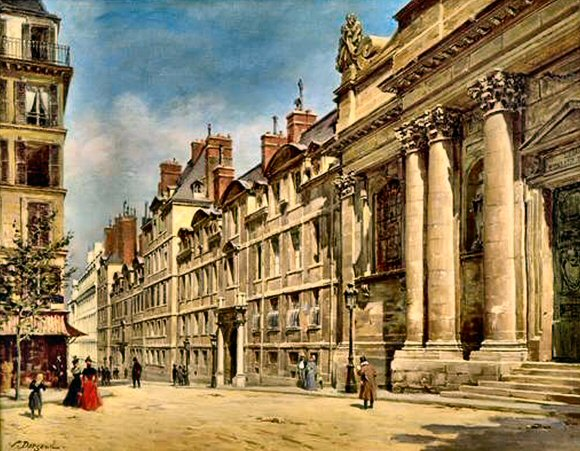 View of the ancient Sorbonne along the rue de la Sorbonne